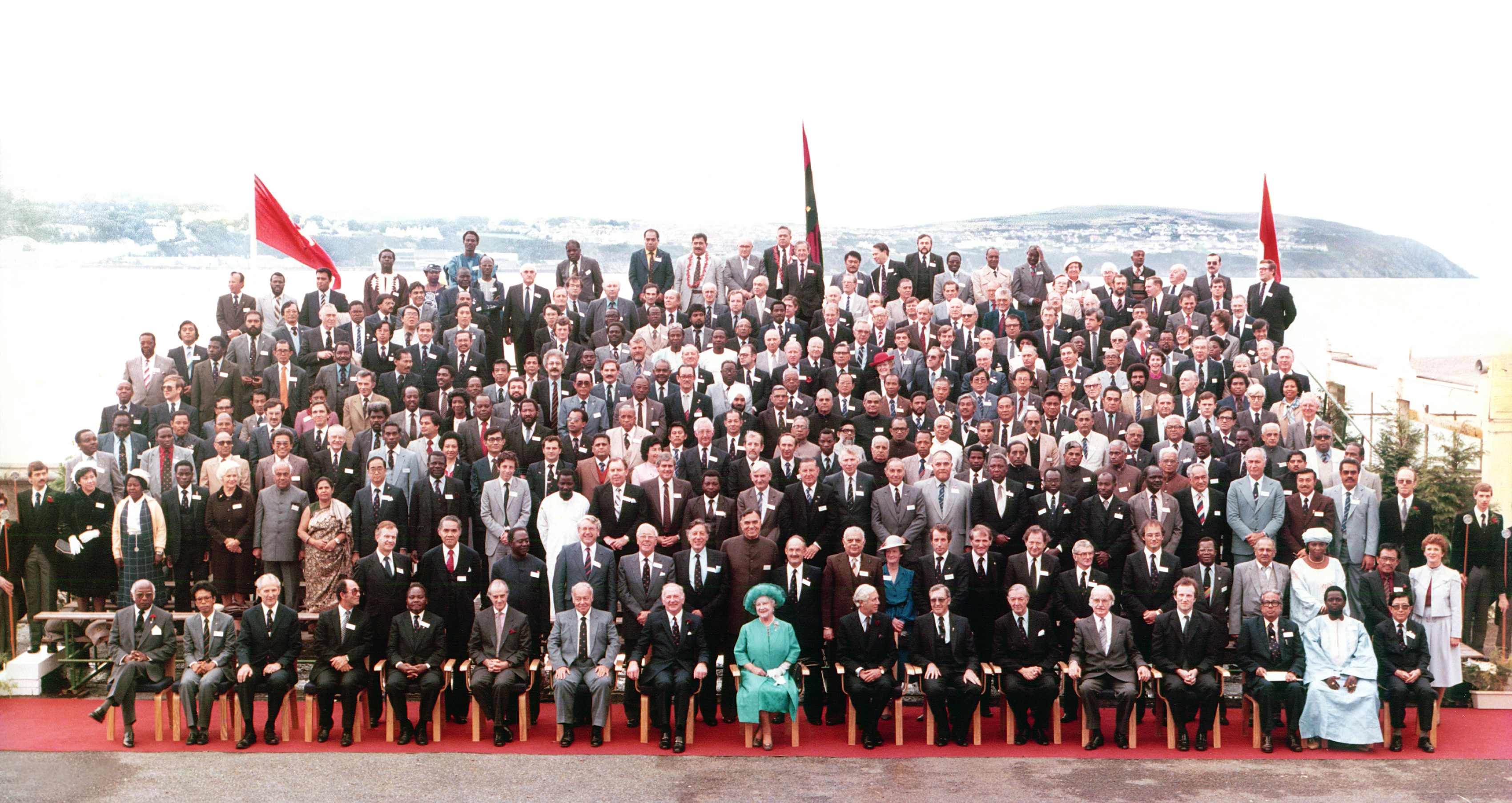 Pandit Ram Kishore Shukla at 30th Commonwealth Parliamentary Association conference at The Isle of Man in October 1984